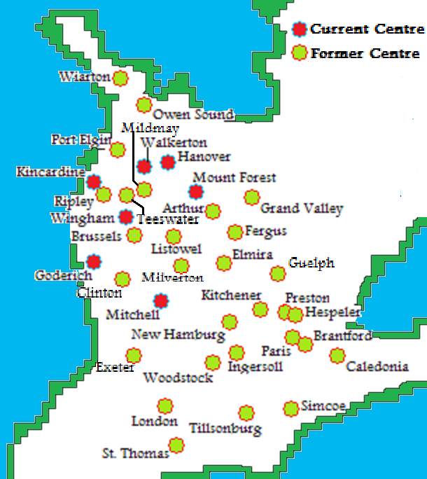 Chart of current and former teams of the Western Ontario Junior C Hockey League.